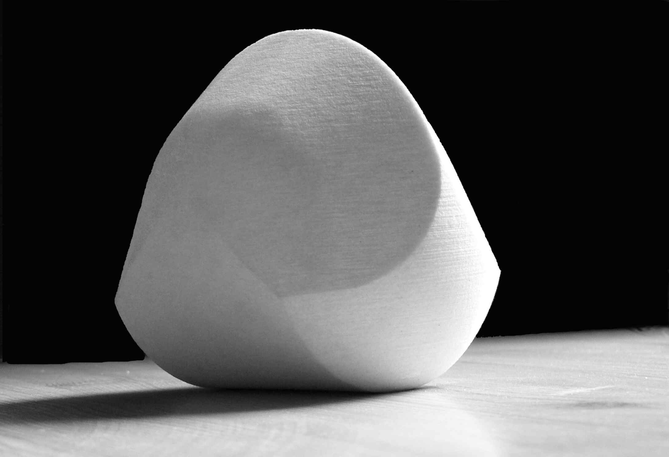 This photo shows a Gömböc.